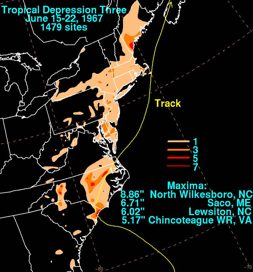 Storm total rainfall map of Tropical Depression Three during June 1967.